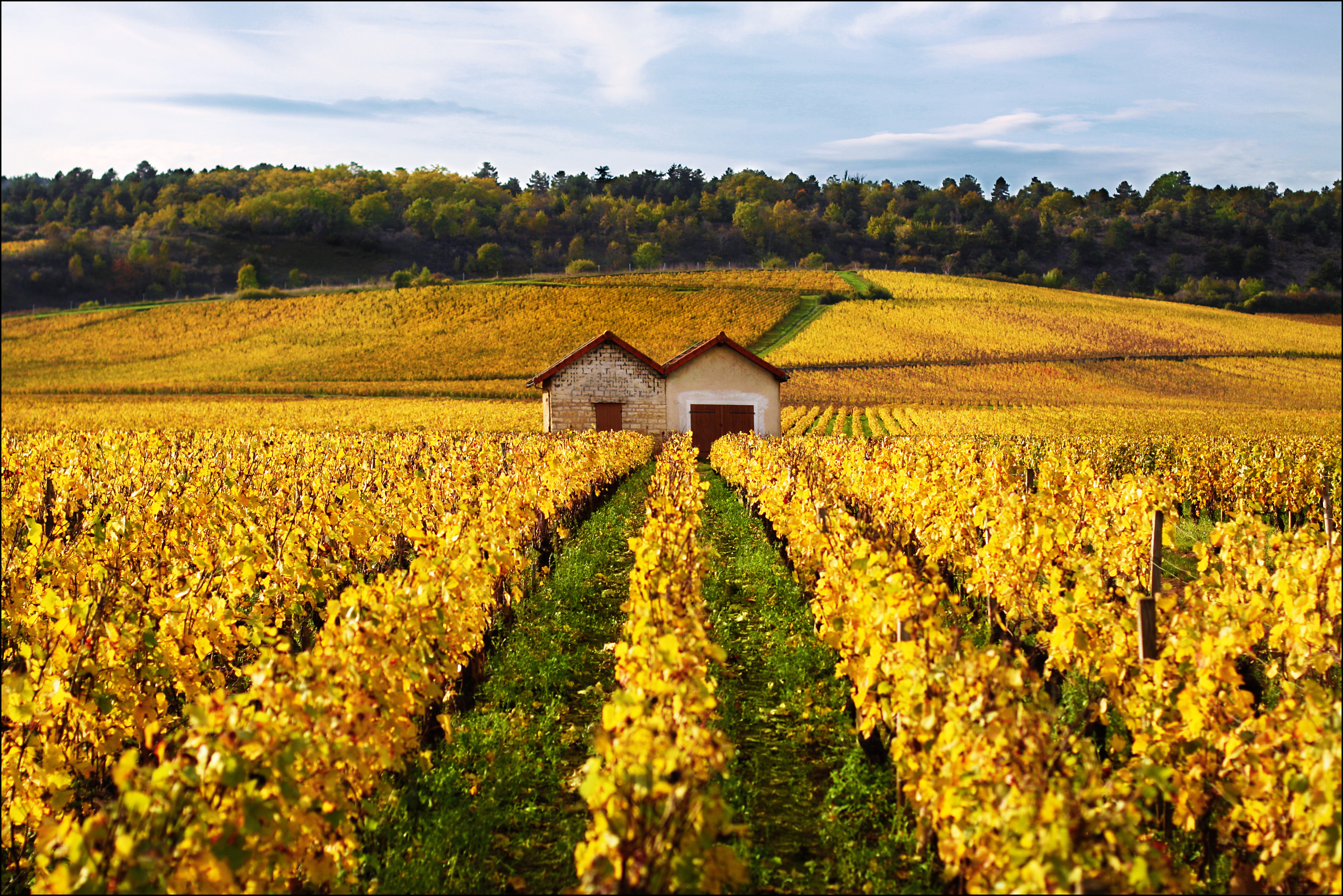 Vineyard shed in the vineyard, Burgundy.